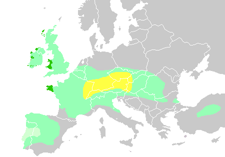 Celtic expansion in Europe the core Hallstatt territory, expansion before 500 BC maximum Celtic expansion by the 270s BC Lusitanian, Autrigones, Varduli and Caristi areas of Iberia, "Celticity" uncertain areas that remain Celtic-speaking today